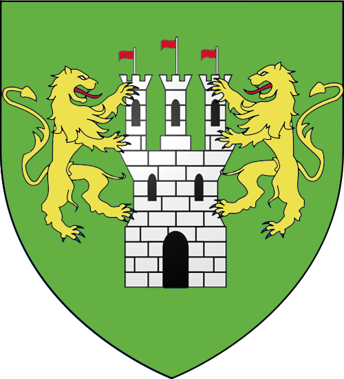 Coat of arms of the O'Shaughnessy.